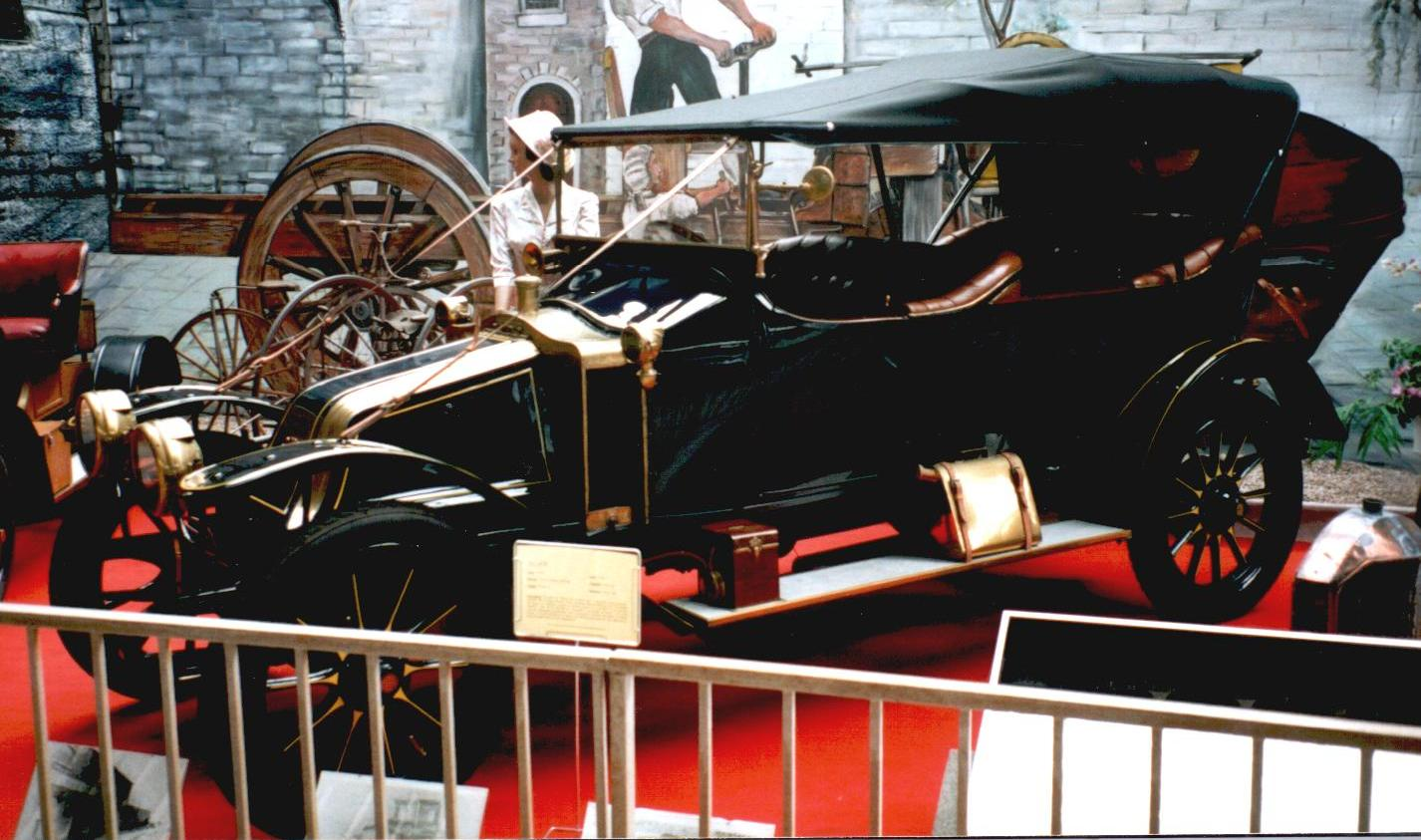 S.C.A.R. 1908